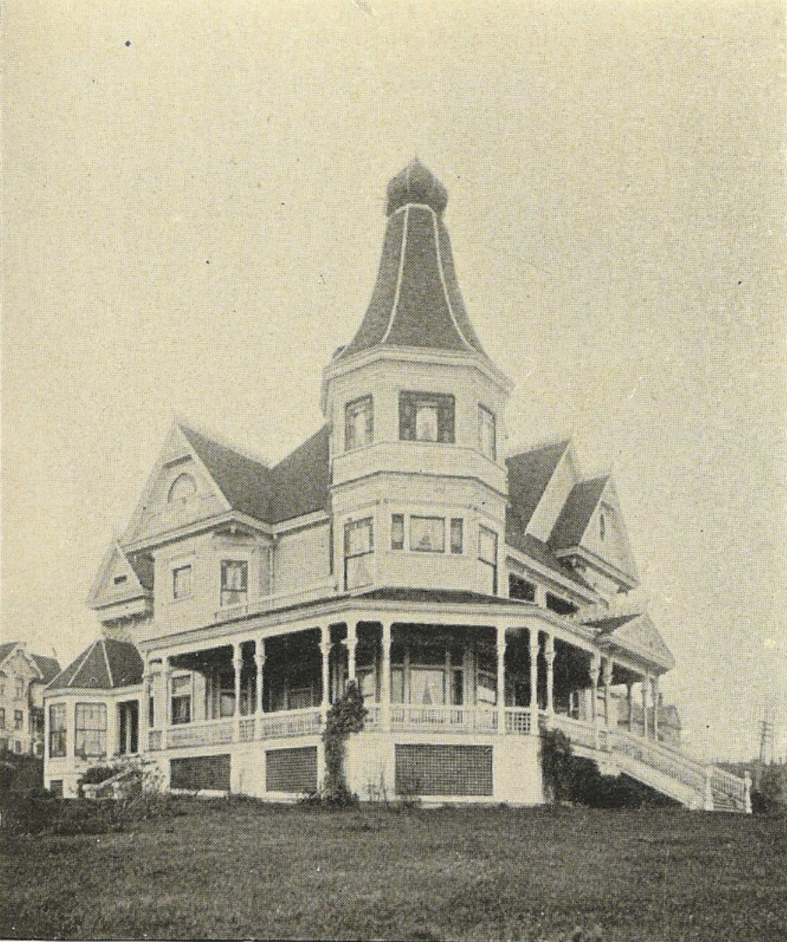 "Residence of George Kinnear, Queen Anne Hill" from brochure Seattle and the Orient (1900). The Kinnear house stood just west of Queen Anne Avenue on the lower reaches of the hill, facing Lower Queen Anne and downtown. Polk's Seattle City Directory 1899 (Polk's Seattle Directory Co., 1899), p. 567 gives Kinnear's address as 809 Queen Anne Avenue. I believe that was this house.